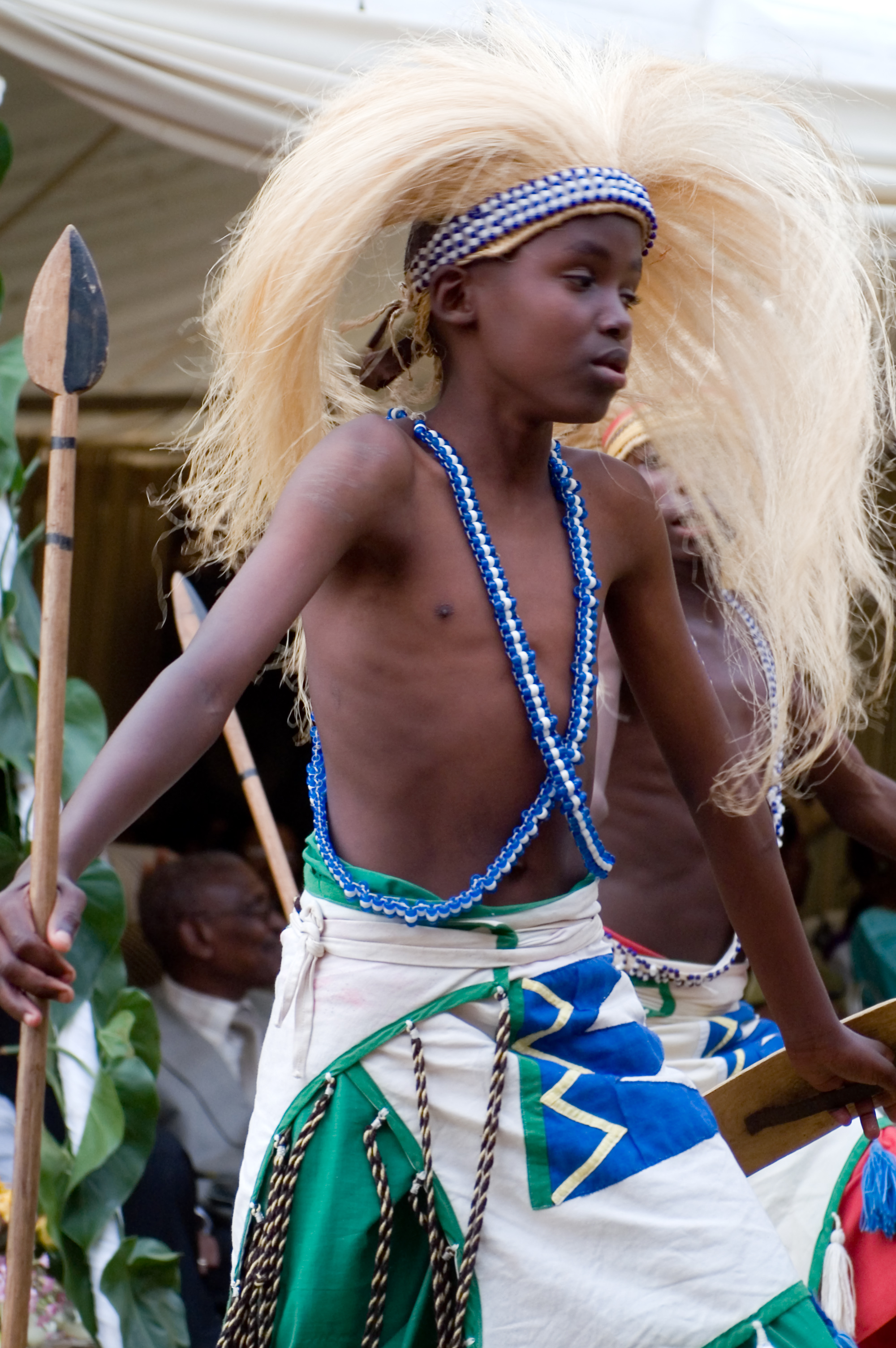 Intore (Rwandan warrior)